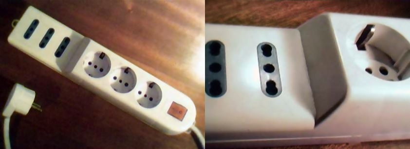 A power strip, bought in Italy. There are three large round receptacles that can take CEE 7/4, CEE 7/7, CEE 7/16, CEE 7/17 and the narrow, 10-amp version of CEI 23-50. There are also three smaller receptacles that can take CEE 7/16 and both types of CEI 23-50. This strip was sold with a CEI 23-50 plug, but I fitted a CEE 7/4 instead. It also features a power switch with a lamp in it. This sort of power strip is invaluable for dealing with the variety of plugs used in Italy. See AC power plugs and sockets for full information.